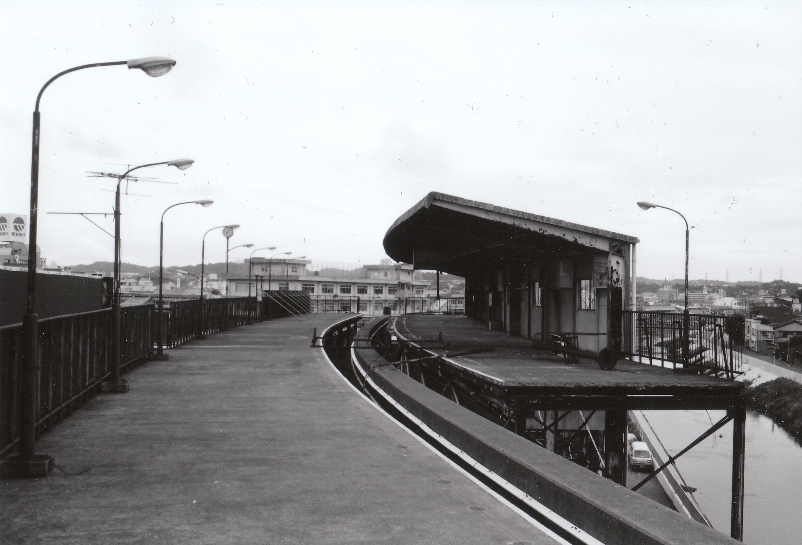 Dream Trafic Monorail Oofuna Station